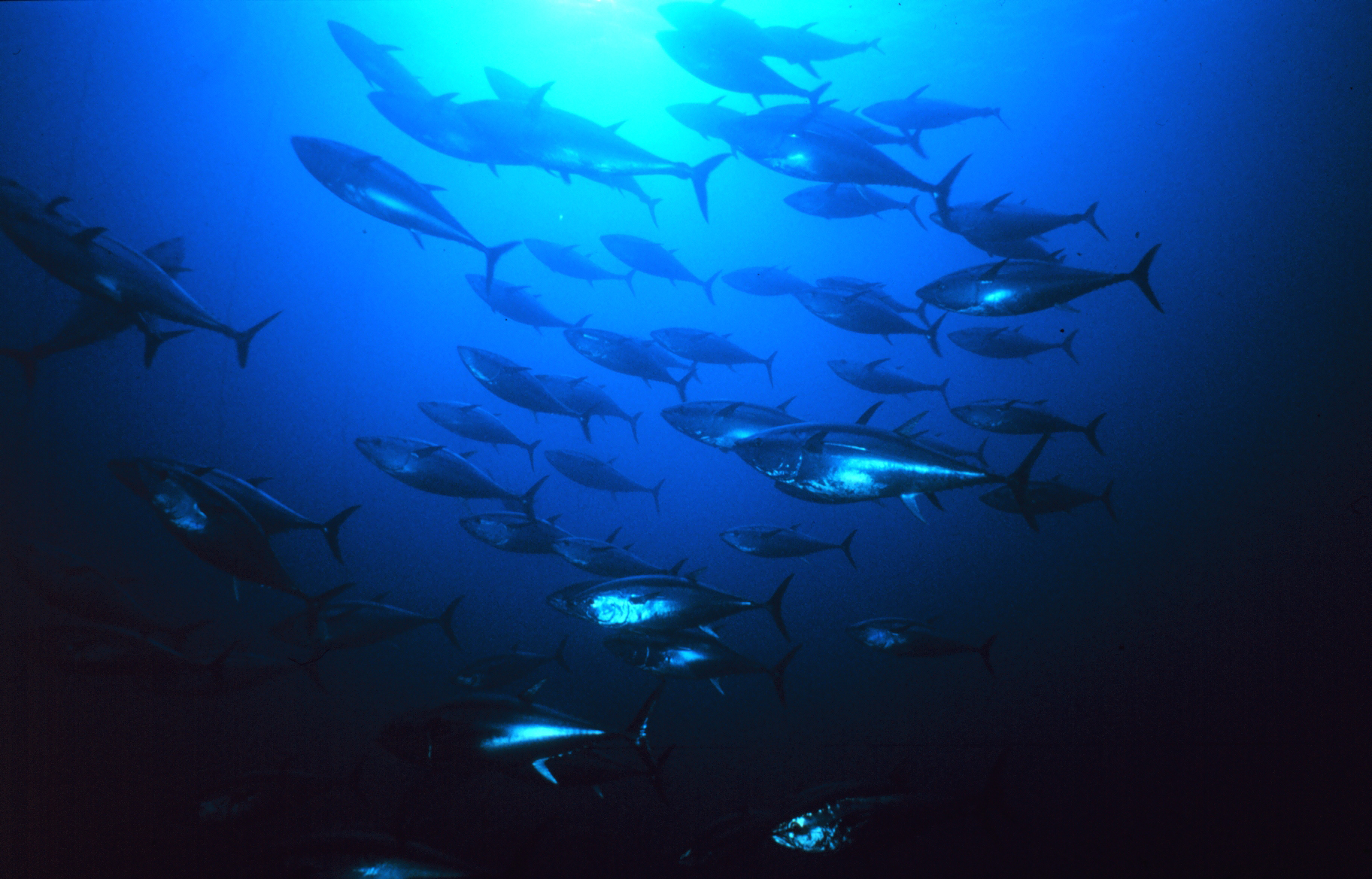 Group of Atlantic bluefin tuna (Thunnus thynnus) in the eastern chamber of the trap at Favignana, Sicily, Italy. Depth 22 meters.